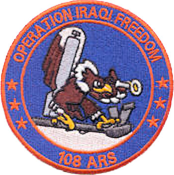 108th Expeditionary Air Refueling Squadron - Operation Iraqi Freedom Deployment Emblem.